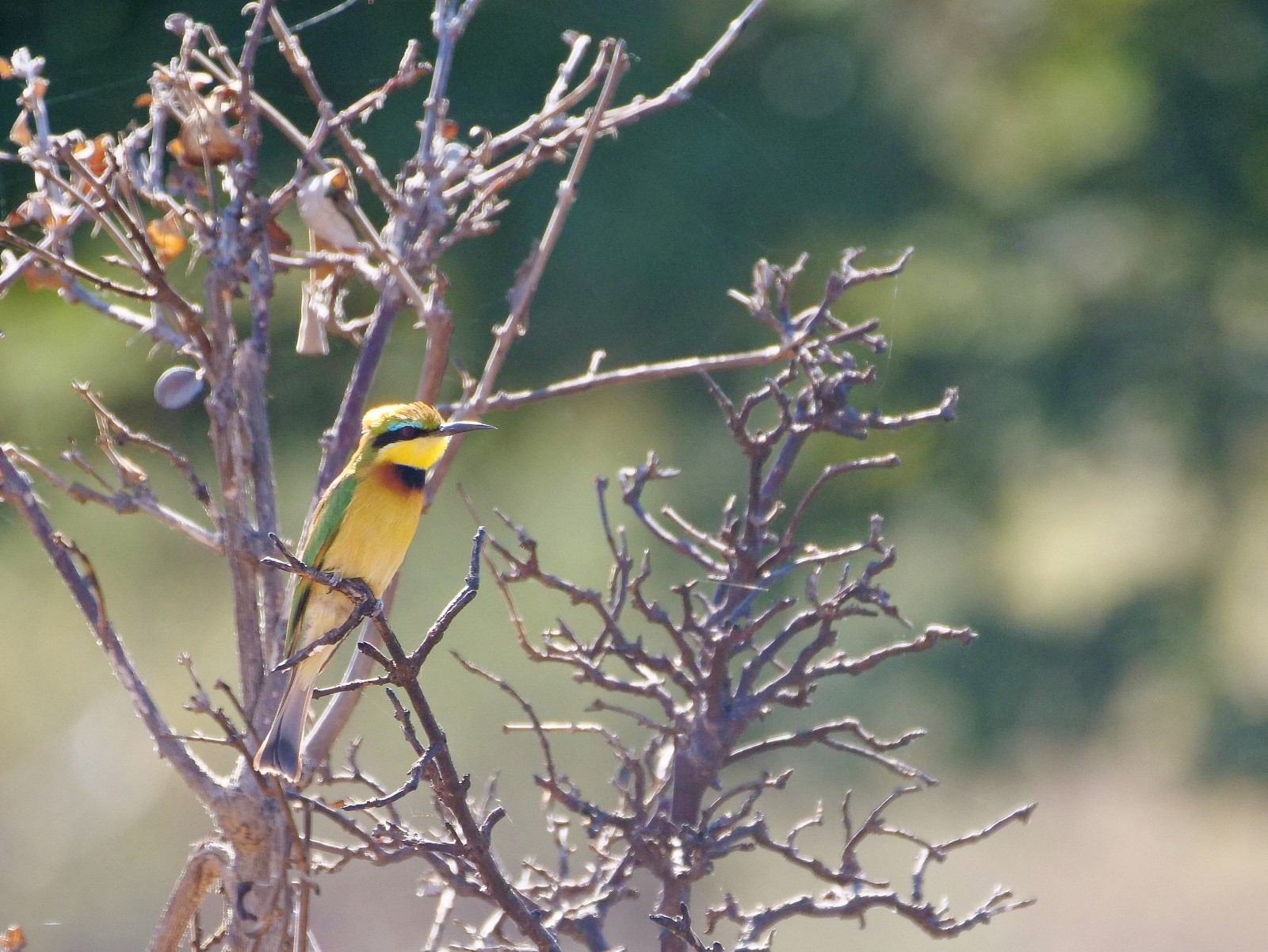 The Little Bee Eater controls the environment from his seat in the thorn bushes to hunt insects.